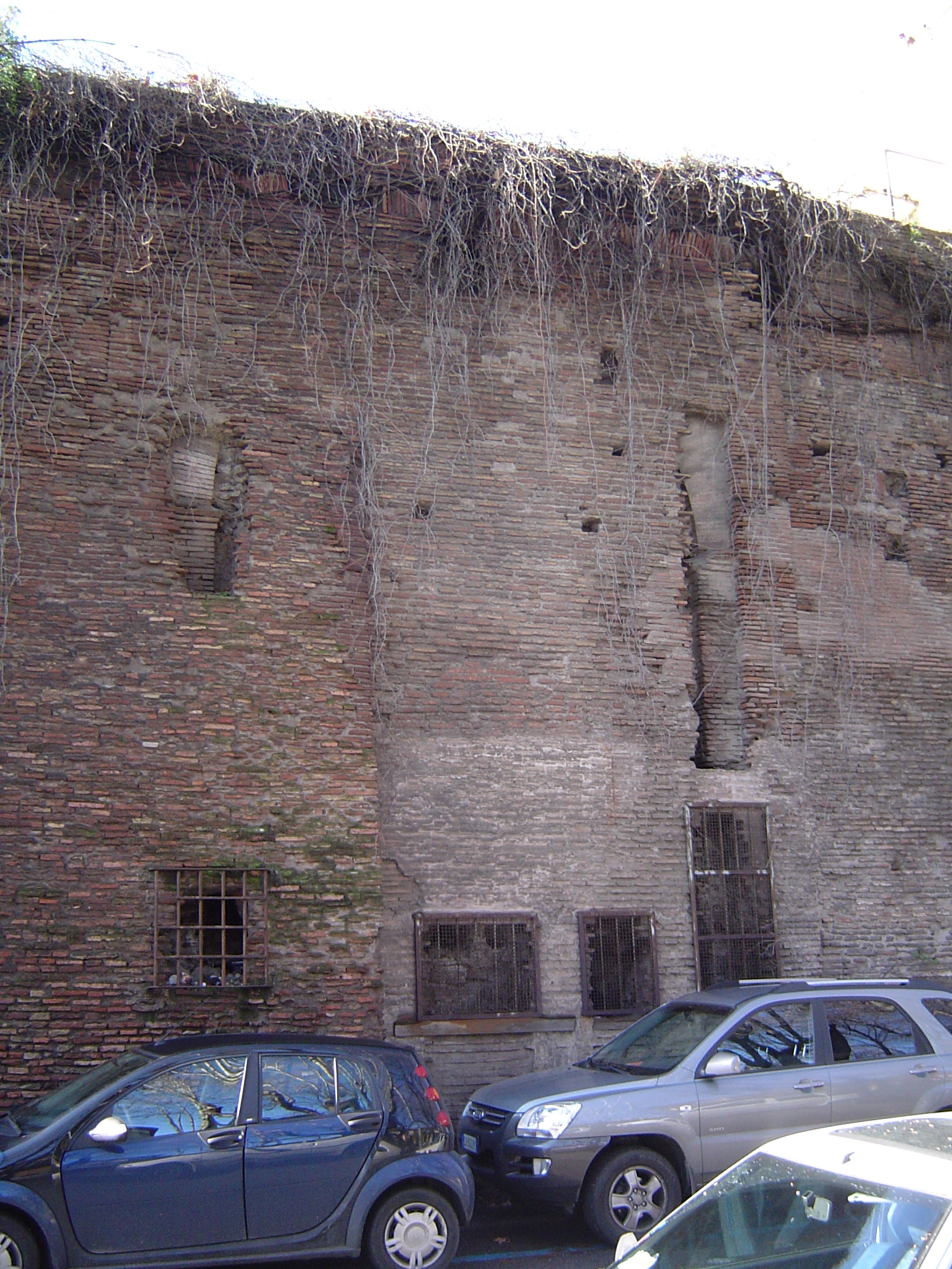 Side of the Porta Principales Dextera, Eastern gate of the ancient Castra Praetoria in Rome, Italy